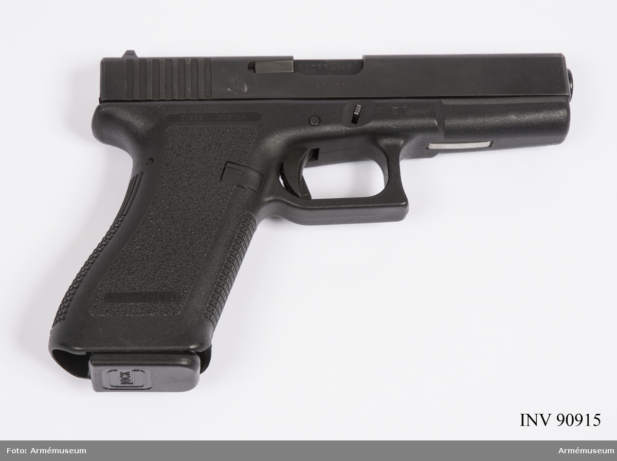 A Glock 17, manufactured for the Swedish Armed Forces, with the Swedish designation Pistol m/88. The pistol in the photo was manufactured in 1989 (serial number 20001) and was the personal service pistol of Lieutenant general Åke Sagrén, Chief of the Swedish Army from 1990 to 1996. It was gifted to the Swedish Army Museum in 2017 by Lieutenant general Sagrén, and is part of the museum's collection of pistols.